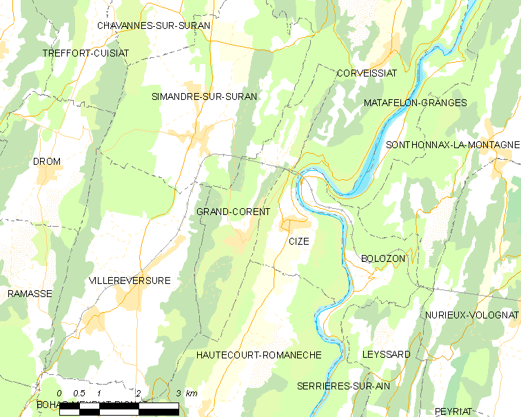 Map of French commune: Grand-Corent Map commune FR insee code 01177.png